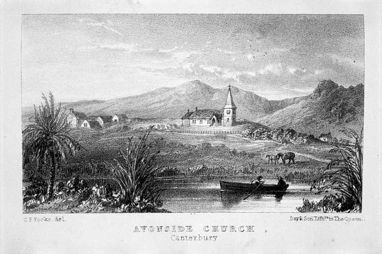 The original Holy Trinity Church, Avonside. This was built near the place on the Avon River at which boats discharged their cargoes. The architect was Charles Edward Fooks (1829-1907). It was consecrated on 24 February 1857, the first consecrated church in Canterbury. As parts of the church fell into disrepair, additions were made. Eventually the whole of the original portion was demolished. The architect of its replacement was Benjamin Woolfield Mountfort (1825-1898).